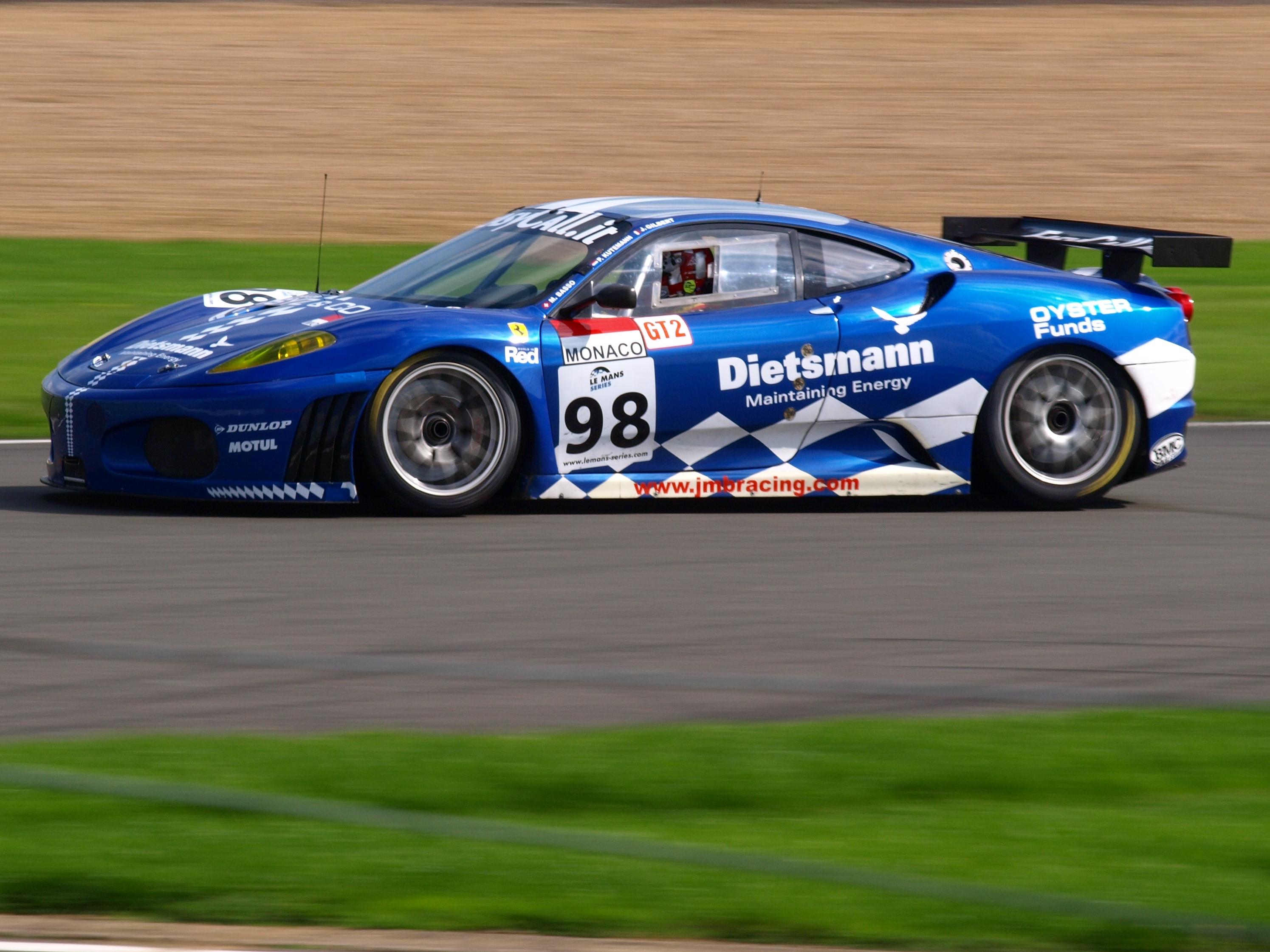 JMB Racing's Ferrari F430 GT2 at the 1000km of Silverstone